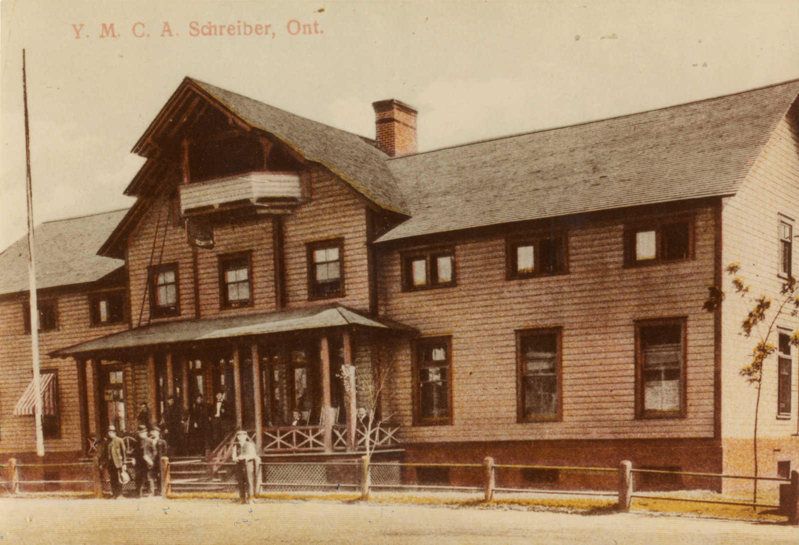 From the Schreiber Public Library collection